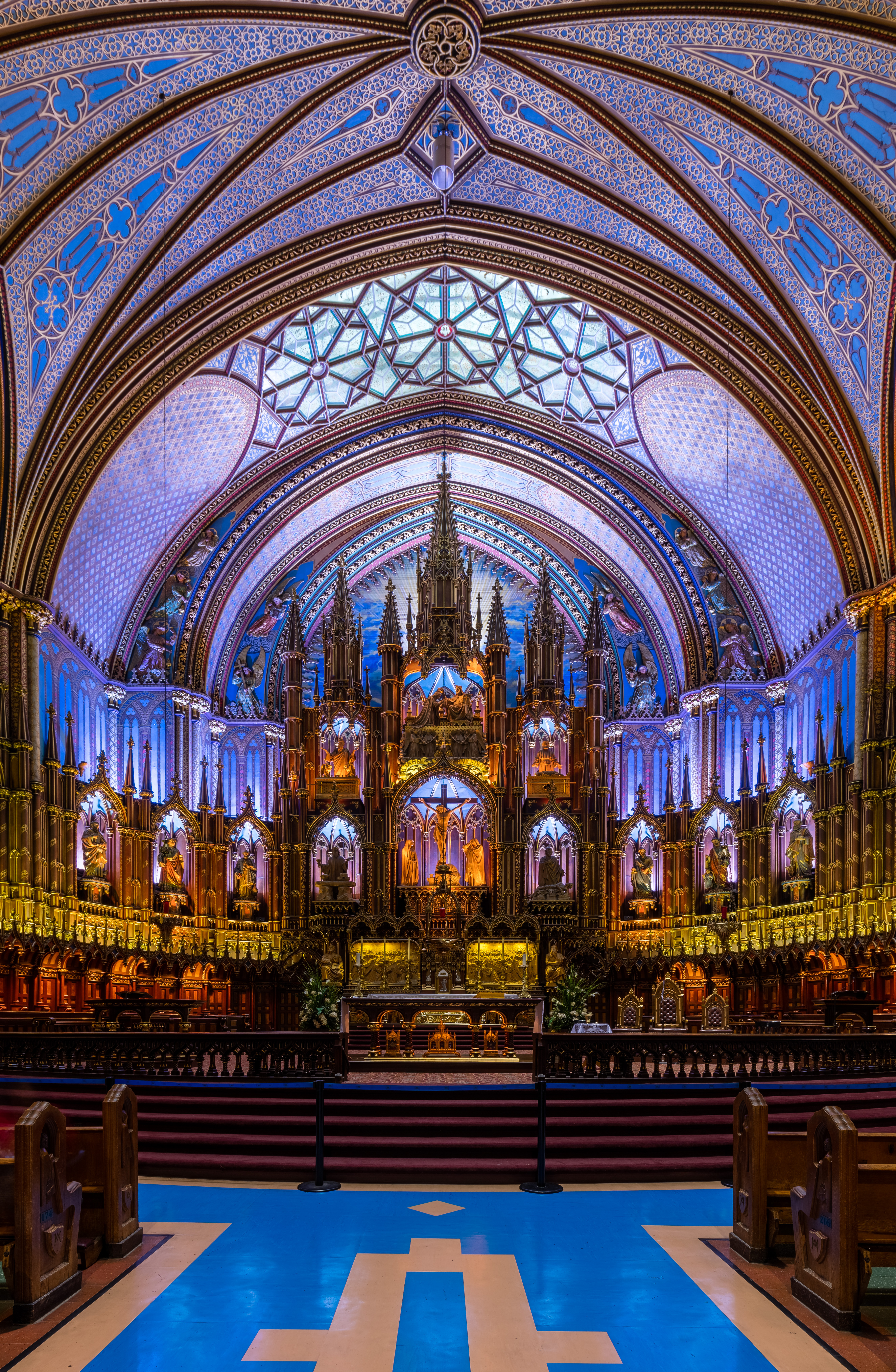 Notre-Dame de Montréal Basilica